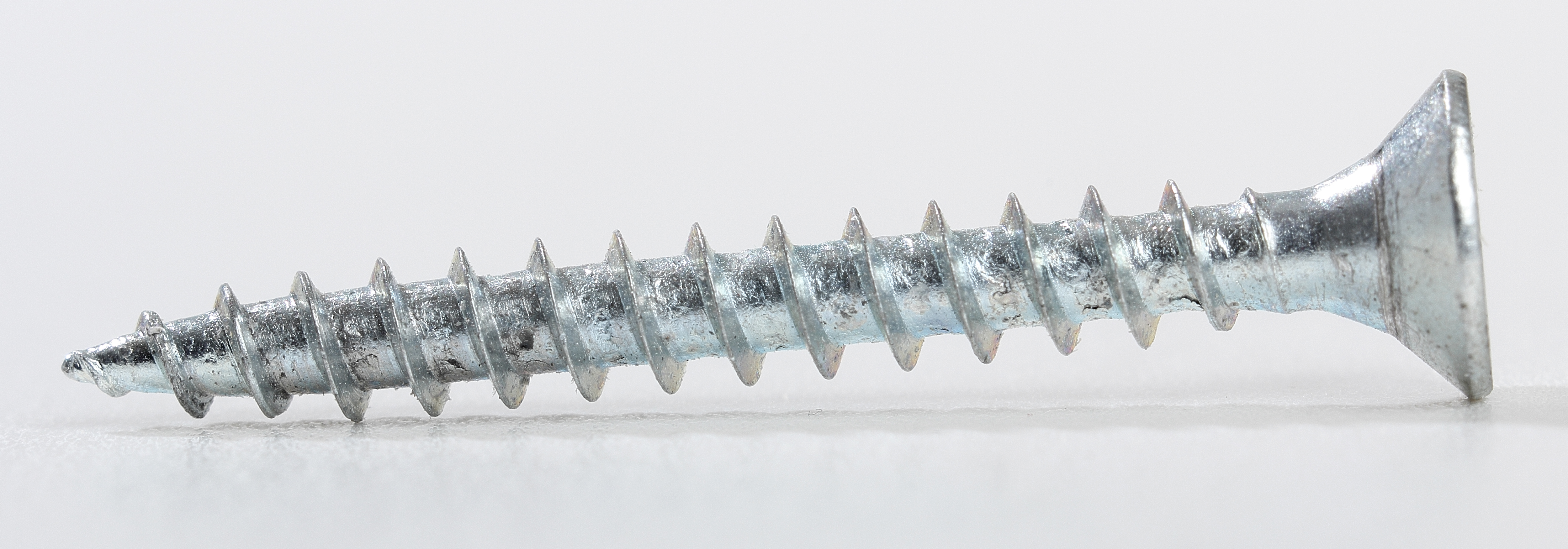 Wood screw.